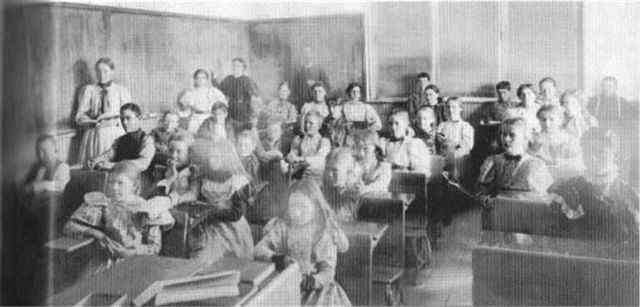 Students inside the Little Red Schoolhouse in Kingman, Arizona.